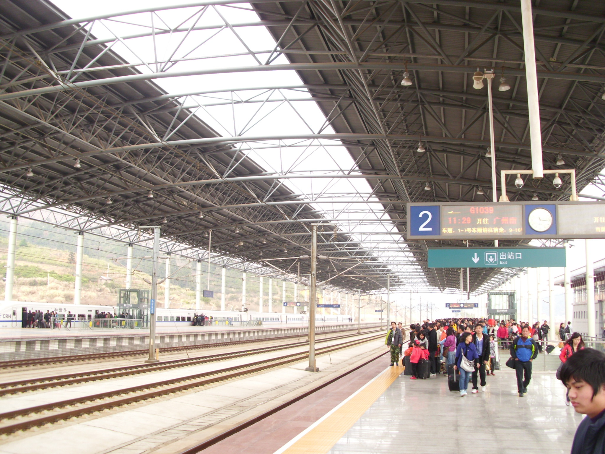 Platform of Chenzhou West Railway Station